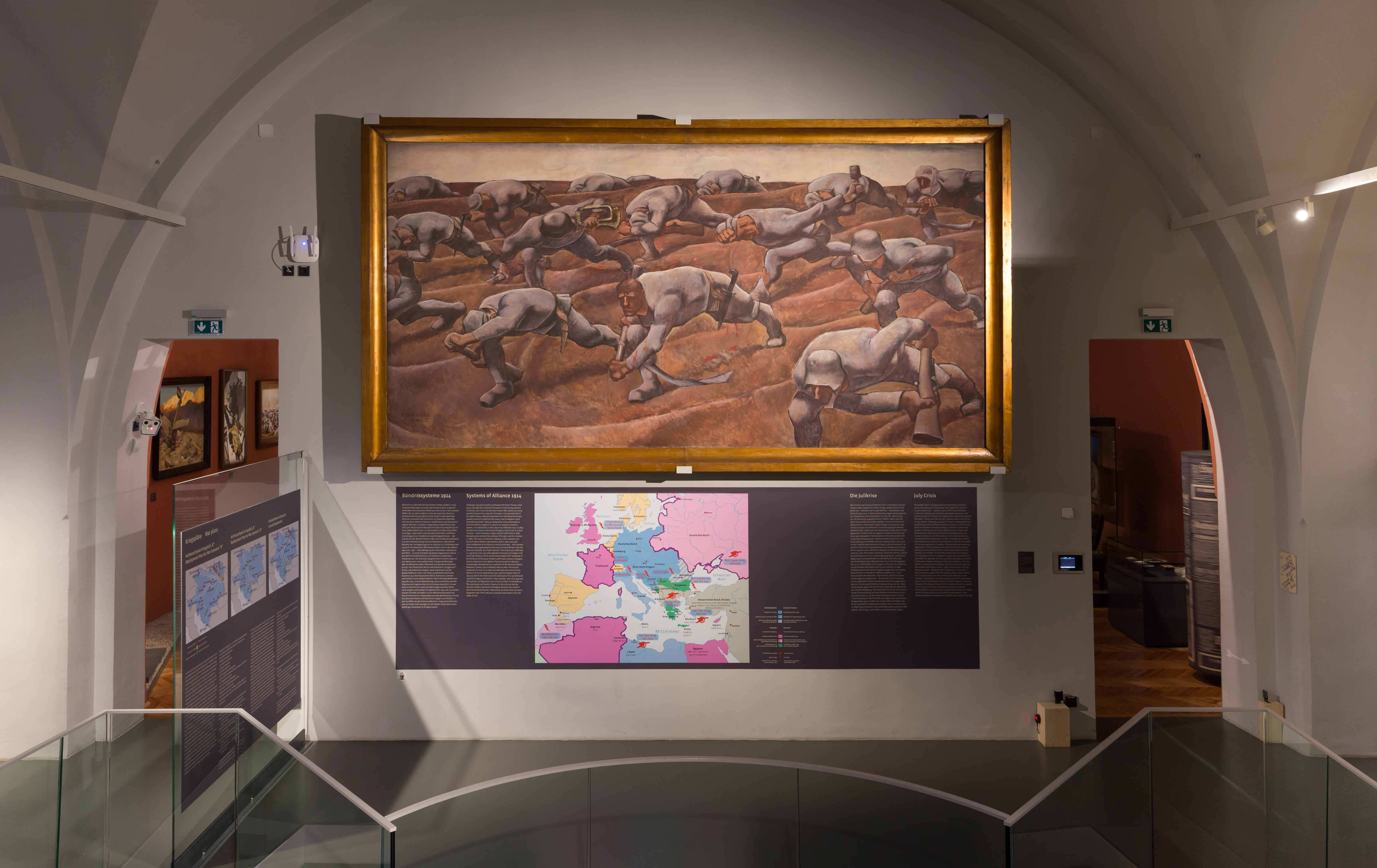 Albin Egger-Lienz, Die Namenlosen (the Nameless), Vienna,, Heeresgeschichtliches Museum), 1916, Tempera on linen, 245 × 476 cm